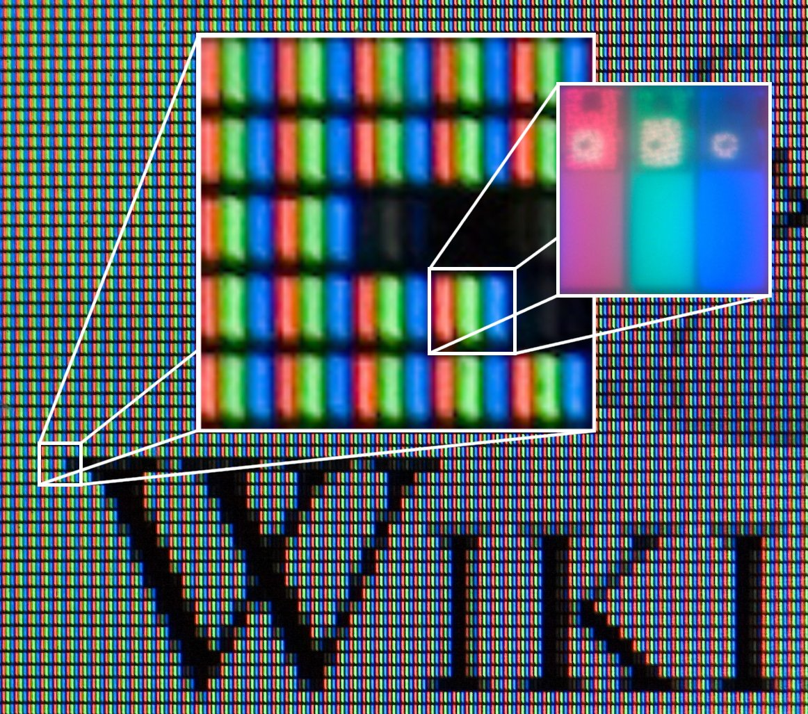 Macro shot of an LCD monitor showing the red, green and blue elements., with zoom-in